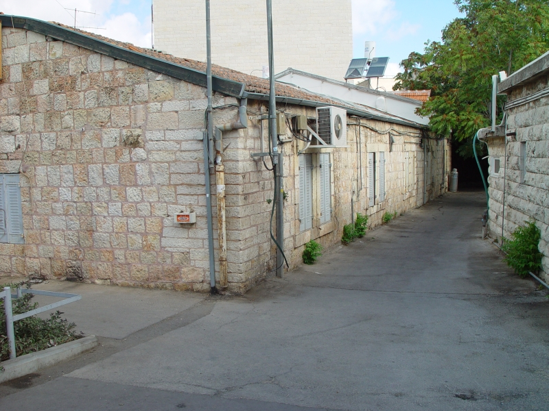 Jerusalem, Sha'arei Yerusha'layim neighborhood, Abu Basal st.